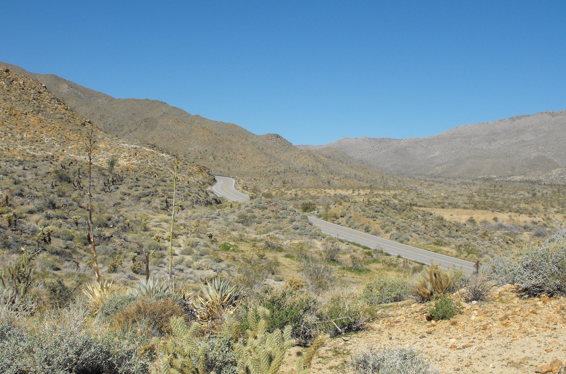 Highway 78 in the southwestern corner of Anza Borrego Desert State Park in San Diego County, California, USA, looking roughly west.